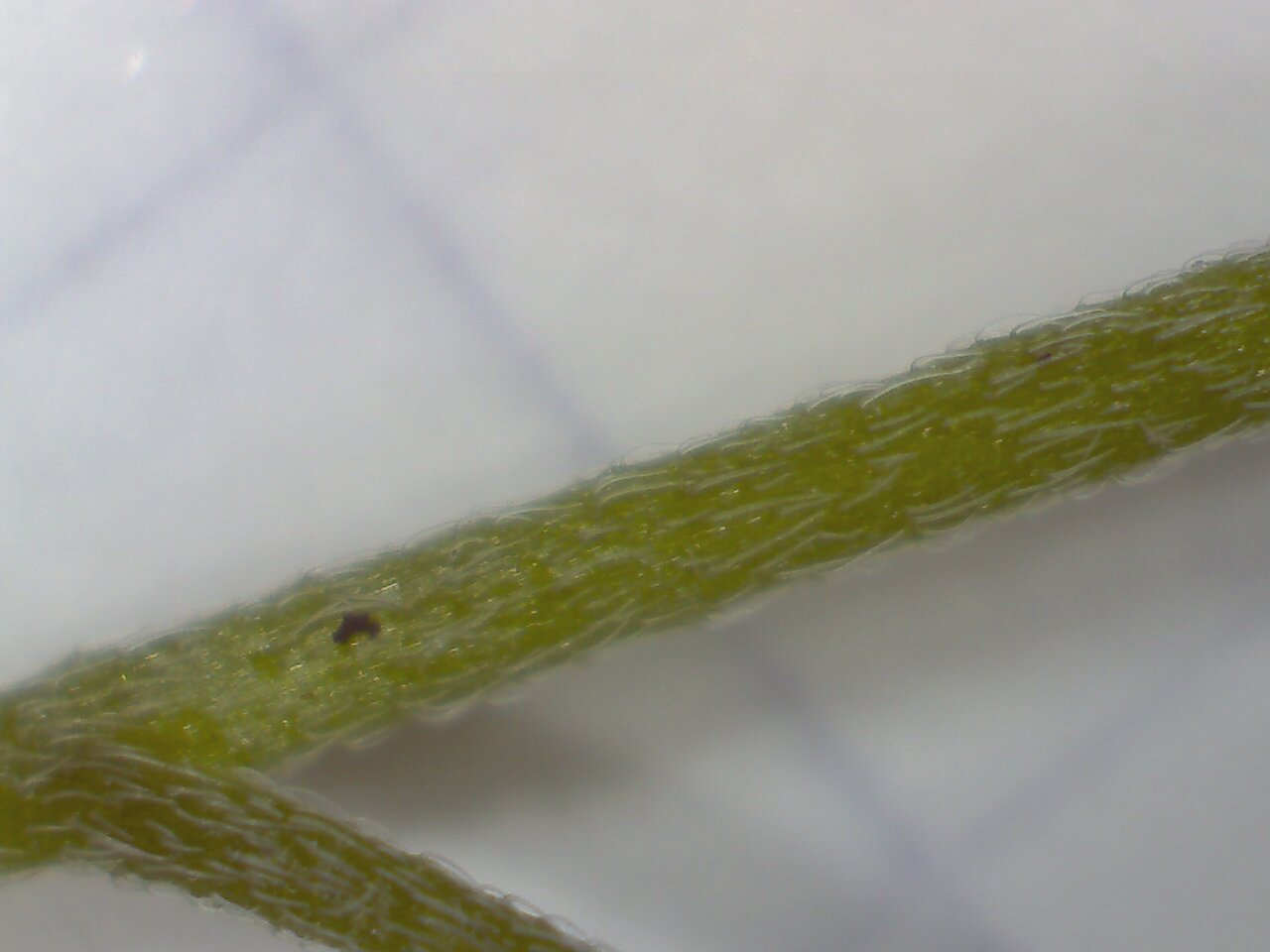 Myosotis sylvatica: stem, background square is 5mm across.